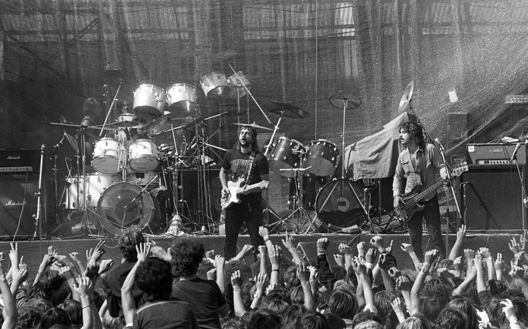 Tibor Tátrai and Egon Póka Hobo Blues Band